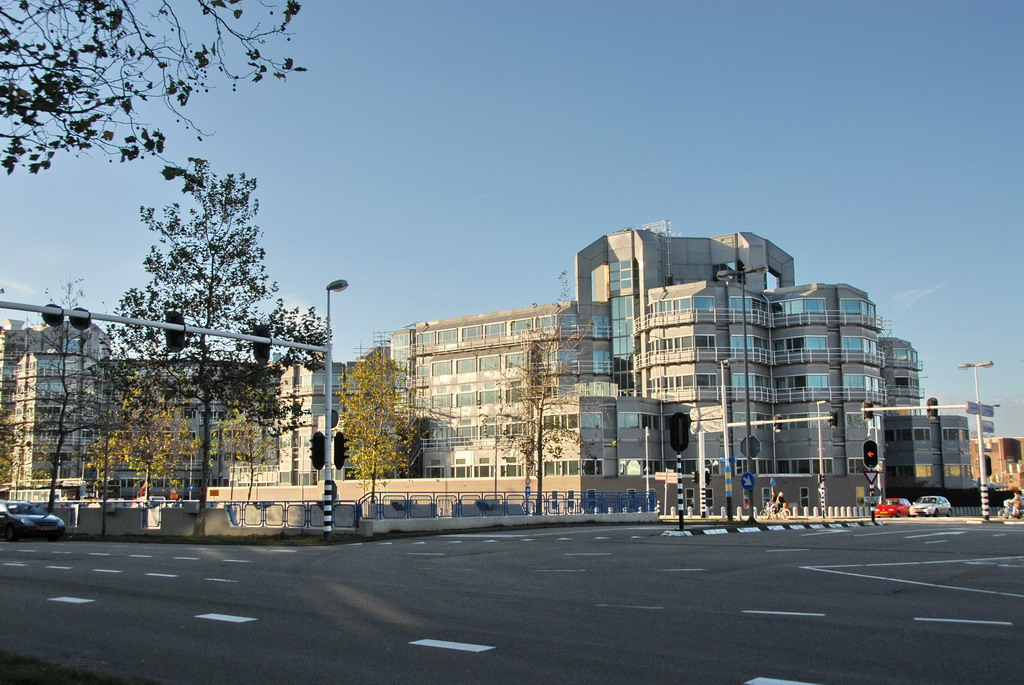 Europaweg Zoetermeer. Former Ministry of Education and Science now headquarters of Dutch intelligence agency AIVD.